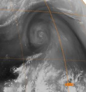 This is a water vapor satellite image of an upper tropospheric low west of Hawaii in the western north Pacific ocean taken on July 10, 2007